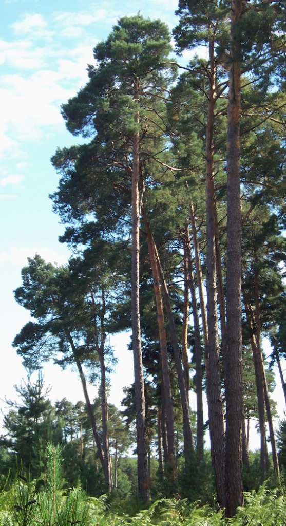 A cluster of Scots pines Name Pinus sylvestris Family Pinaceae Photo : B.Navez - Forêt de Tronçais (France) - 30 JUL 2005